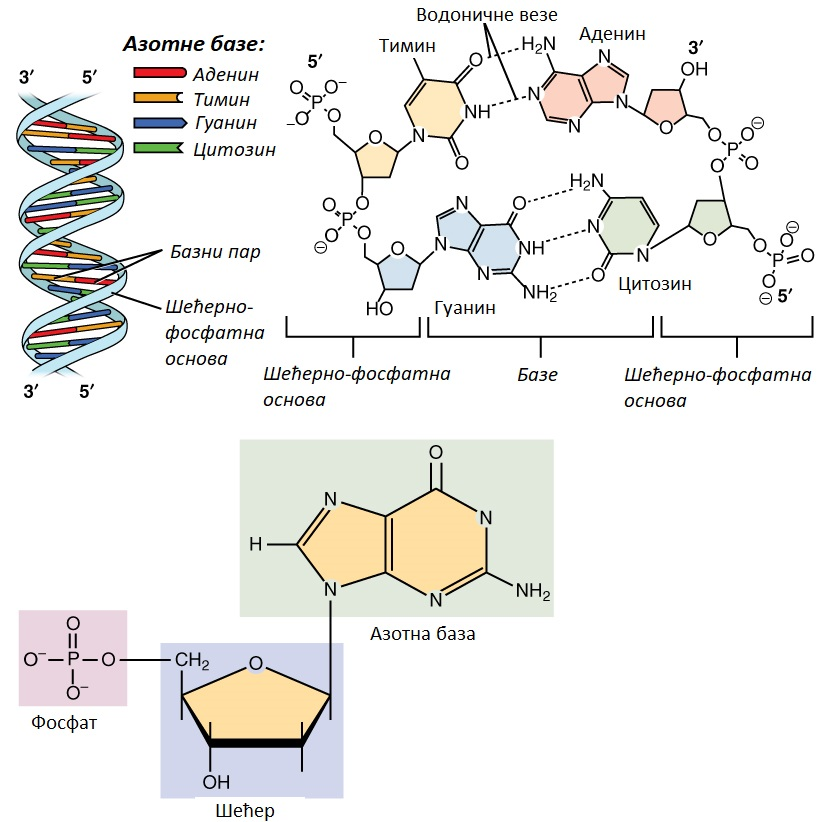 This is a version of the File:0322 DNA Nucleotides.jpg with labels translated on Serbian language.